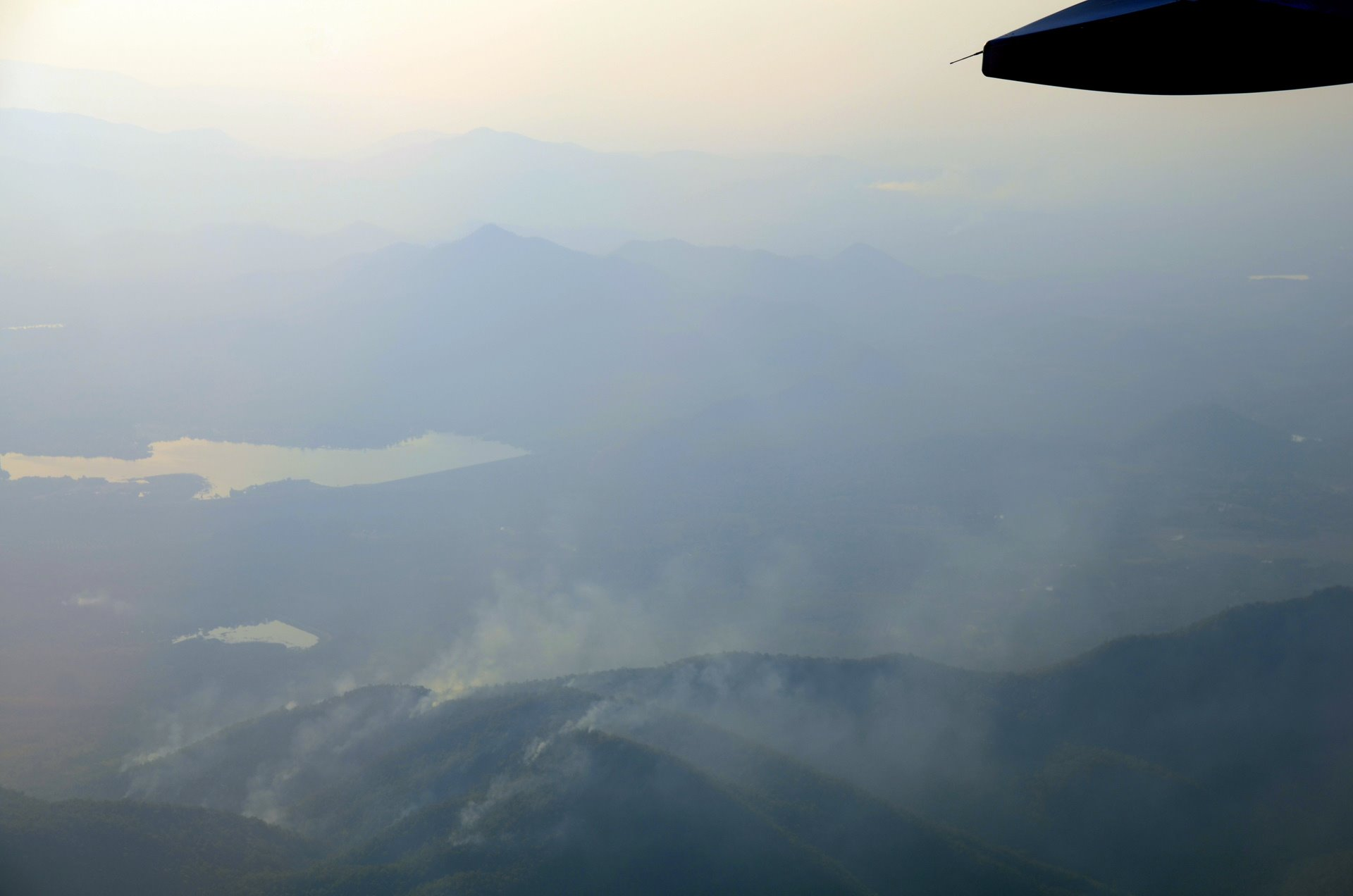 The photo shows the smoke coming off from several wildfires in the mountains of northern Thailand. Farmers in northern Thailand always set fire to the forests in the mountains nearing the end of the dry season. This is done mainly so that the Astraeus asiaticus (